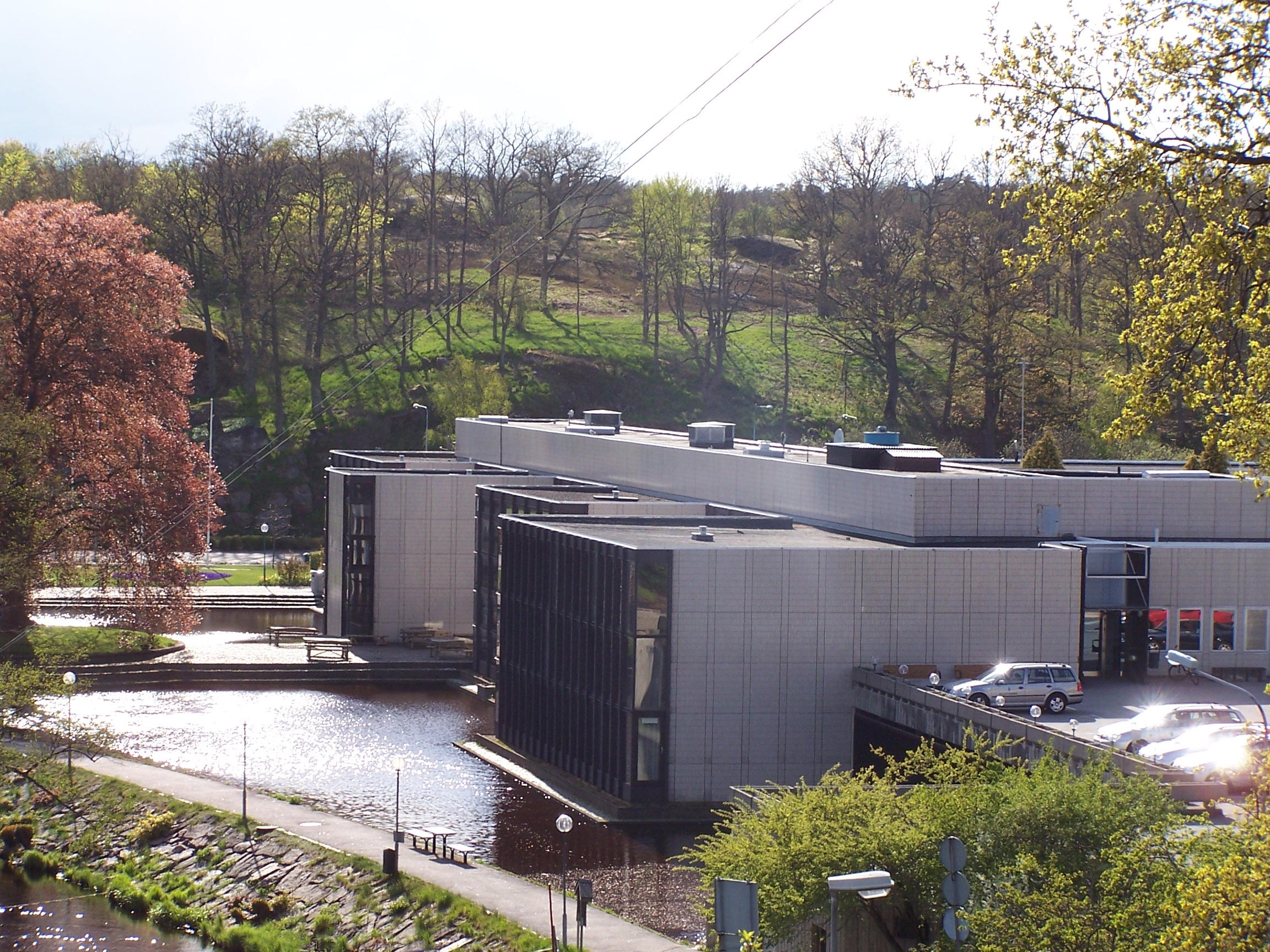 Ronneby city hall.